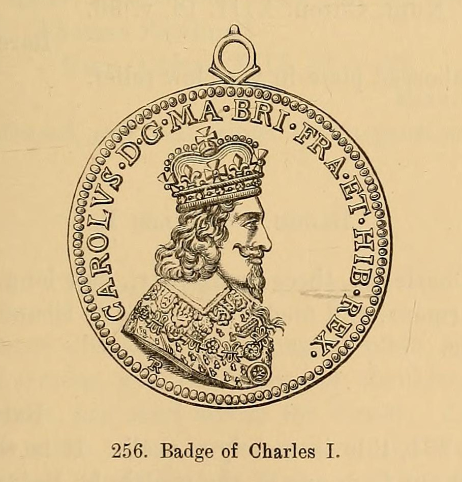 Badge of Charles I of Great Britain, engraved by Thomas Rawlins.